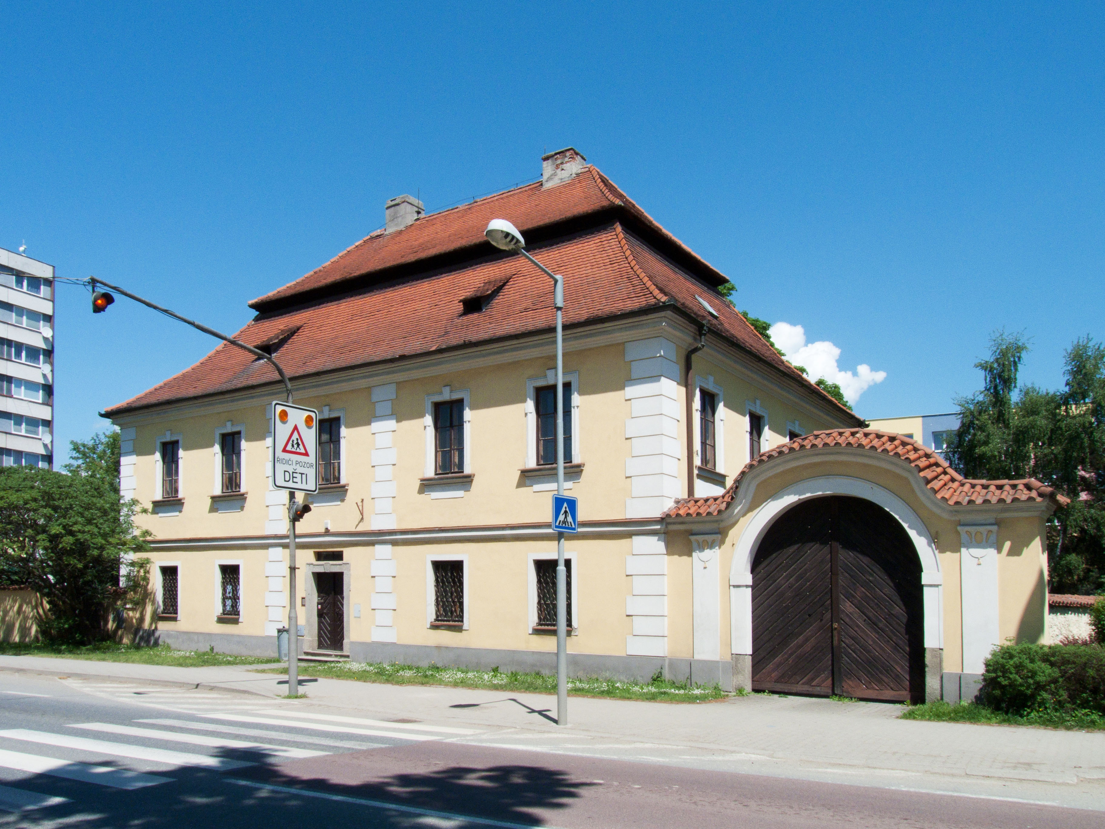 Rectory - house No 1 in ČSLA street in the town of Planá nad Lužnicí, Tábor District, Czech Republic.